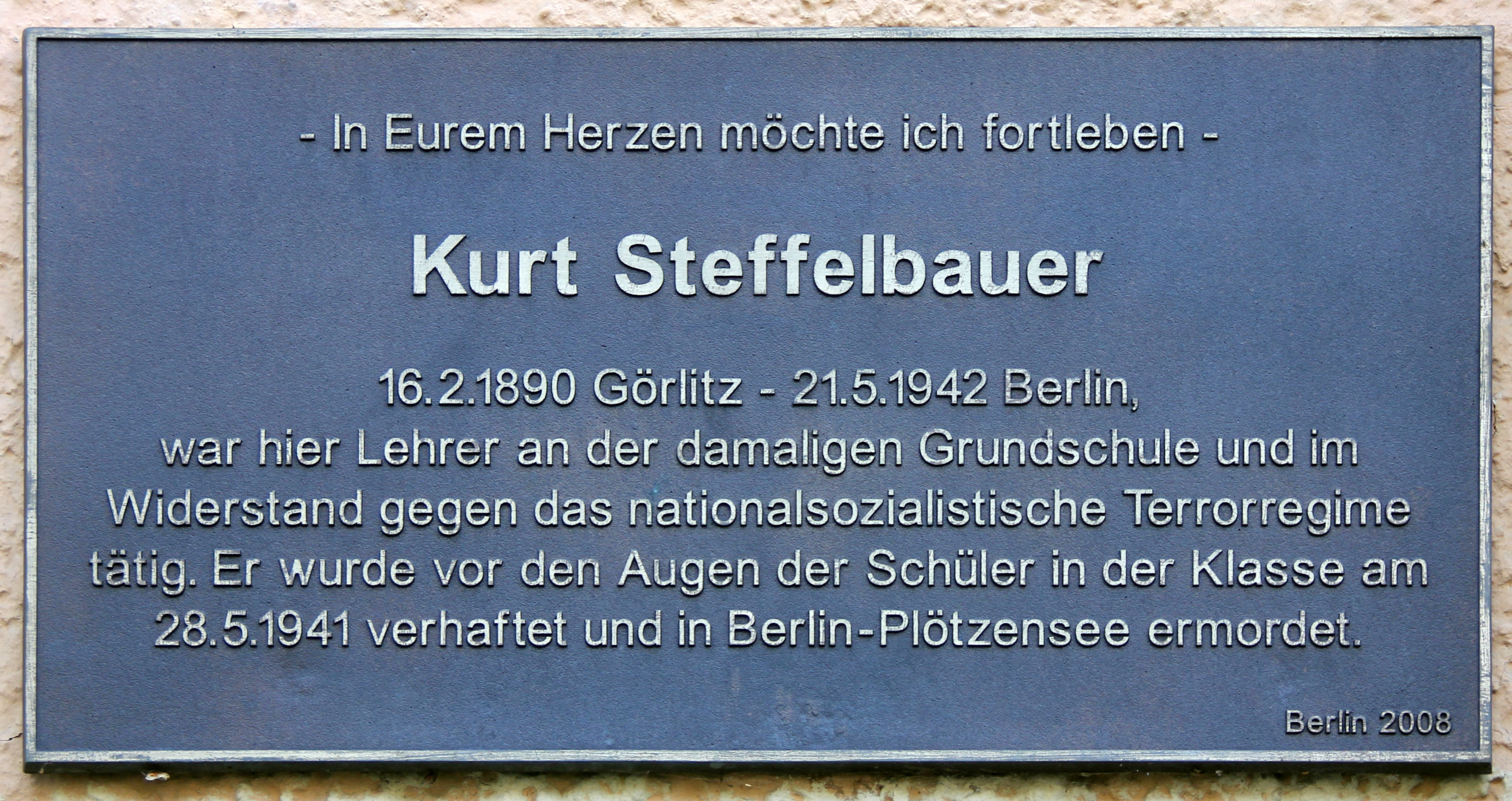 Memorial plaque, Kurt Steffelbauer, Tegeler Straße 18, Berlin-Wedding, Germany